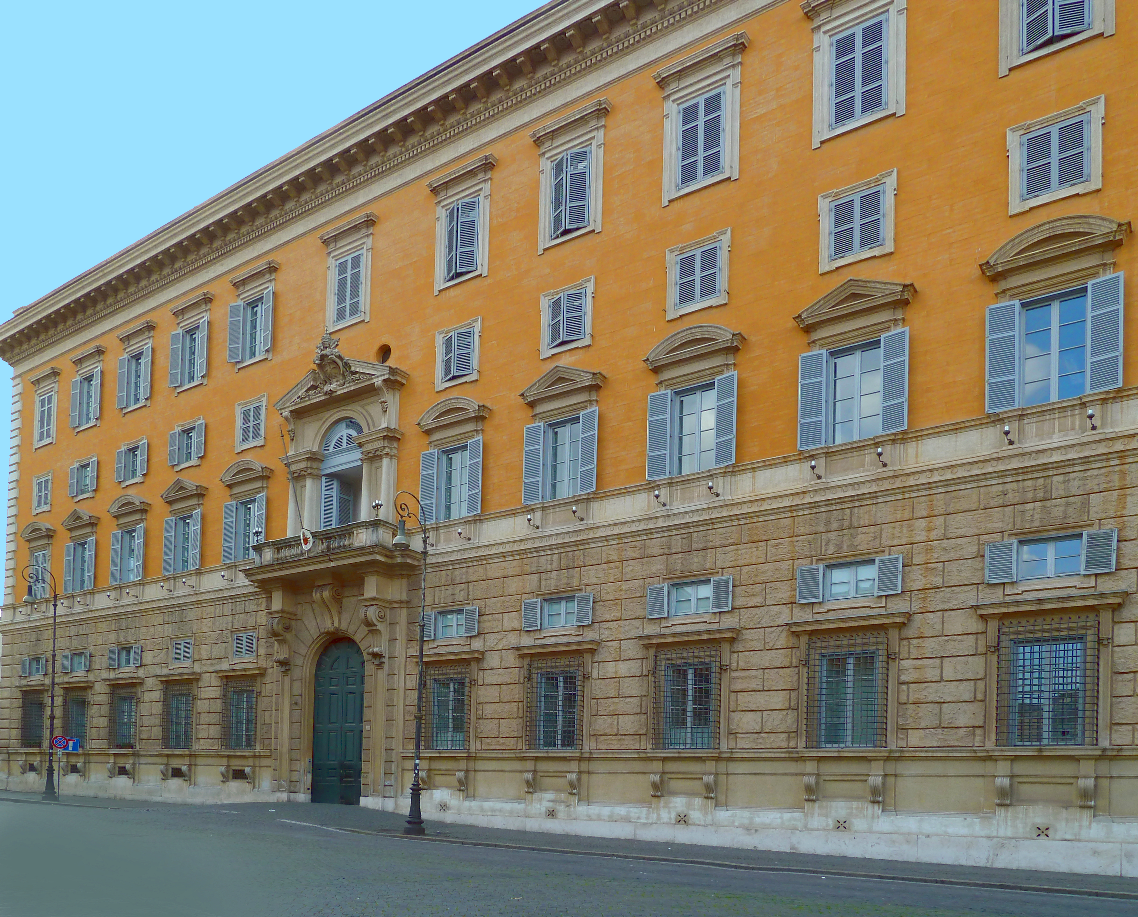 Palazzo del Sant'Uffizio (seat of the Congregation for the Doctrine of the Faith). Extraterritorial property of the Holy See.